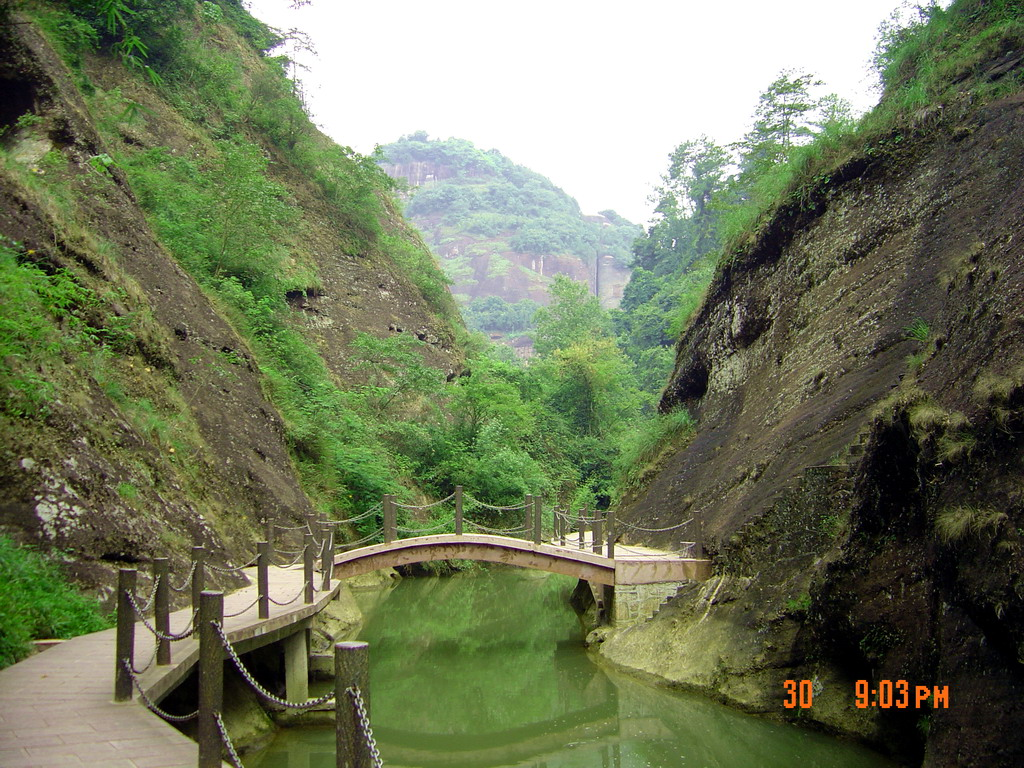 Bridge Yong'an, Fujian, China 桃源洞